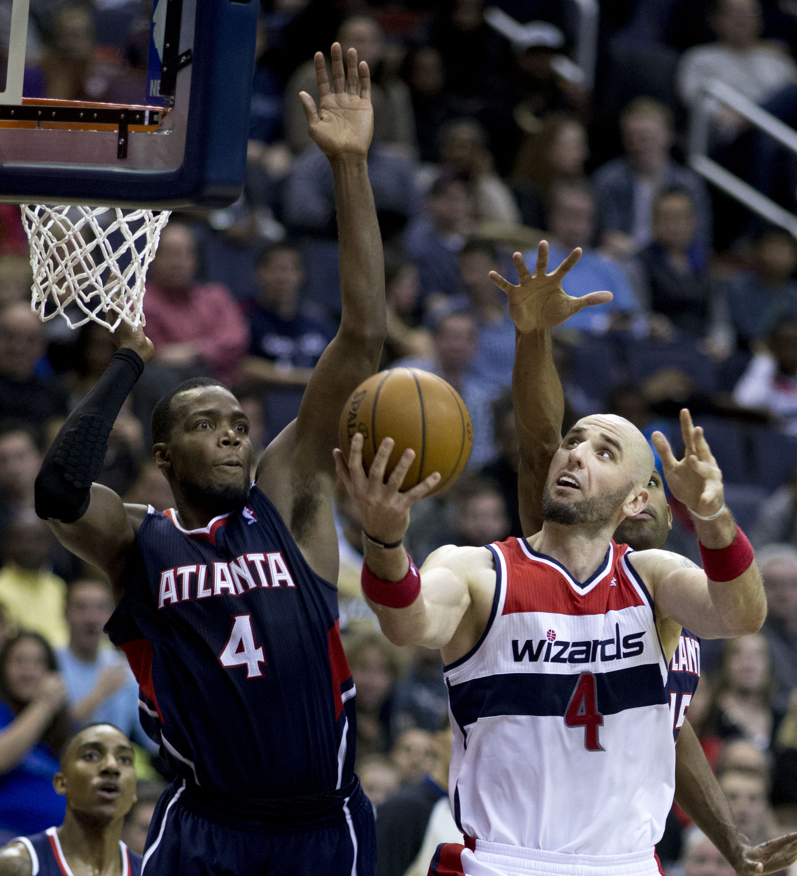 Hawks at Wizards 11/30/13